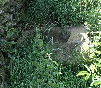 "Abbot's Chair" - Monk's Road. Part of the Archaeology of Derbyshire